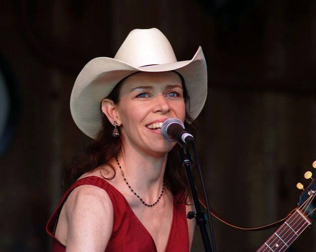 Gillian Welch performing at MerleFest, 2007. Photograph by Forrest L. Smith, III.